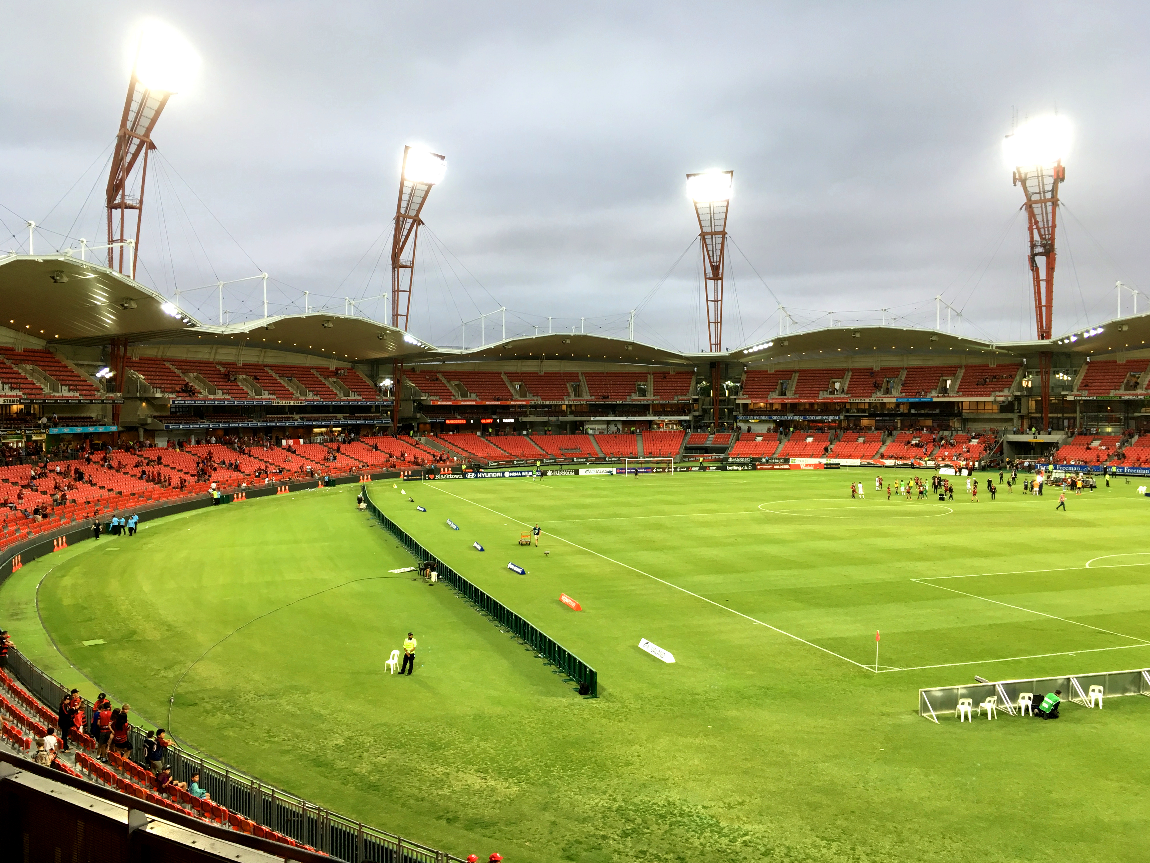 View of the playing field at the Sydney Showground Stadium, with an association football pitch installed, photographed from between sections 436 and 435 of the Cumberland Stand. The photograph depicts a scene following the conclusion of a Western Sydney Wanderers FC v Perth Glory FC round 23 match during the 2017–18 A-League season.